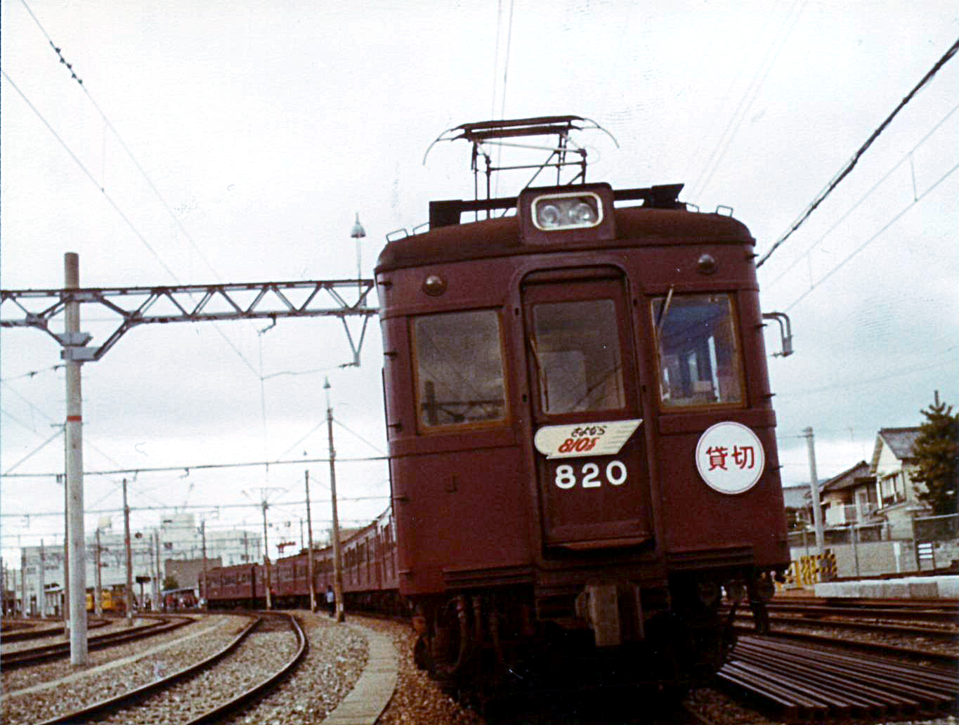 Farewell operation from Hankyu Railway 820. taken in 1985.